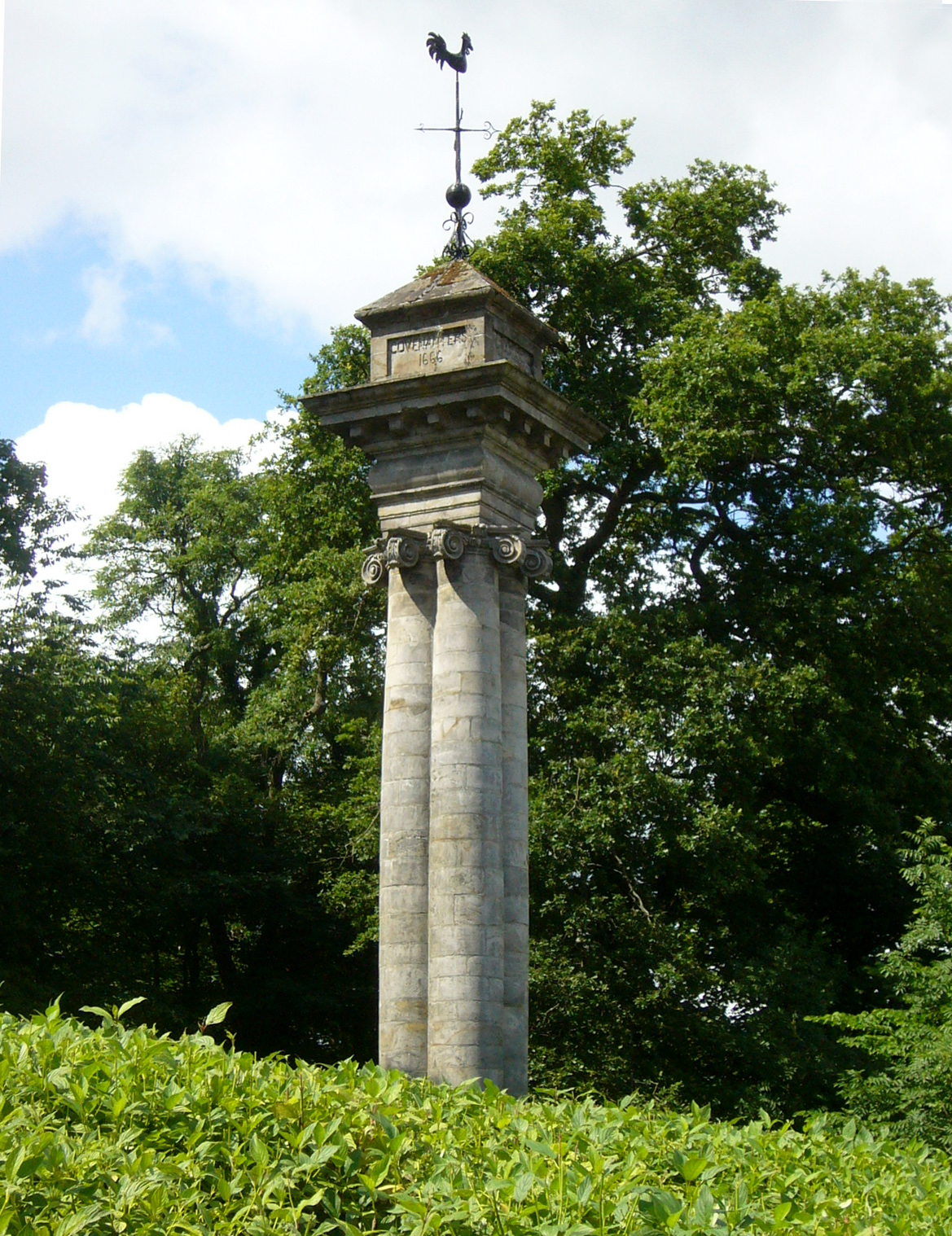 Monument outside Dreghorn Barracks at the foot of the Pentland Hills commemorating the dead of the Pentland Rising in 1666.